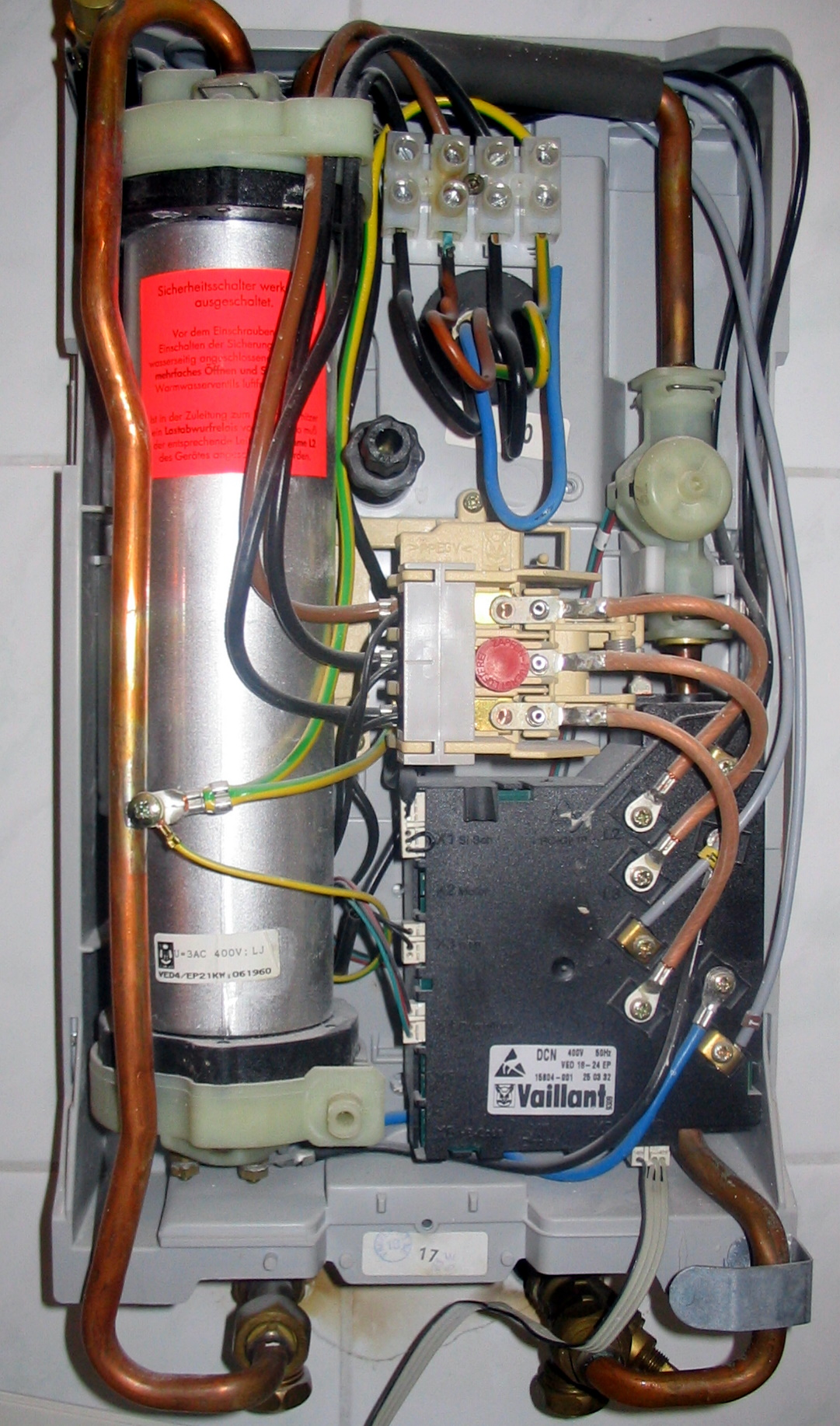 Internal view of an electronically controlled continuous-flow instant water heater. Power is 21 kilowatts maximum, depending on water flow. Due to improper workmanship scorch signs on one joint of the insulating screw are visible.